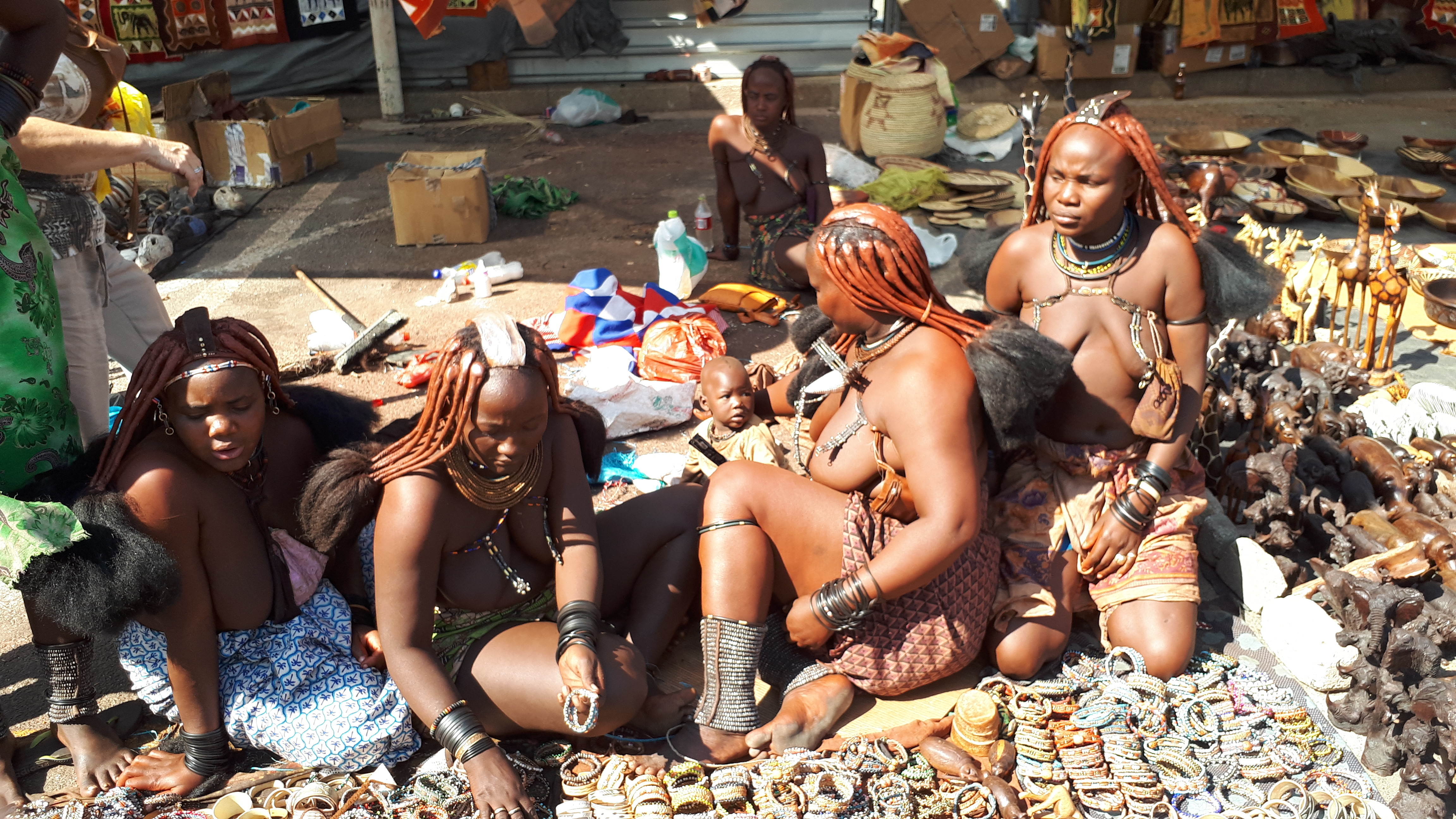 This is an image with the theme "Play" from: Namibia